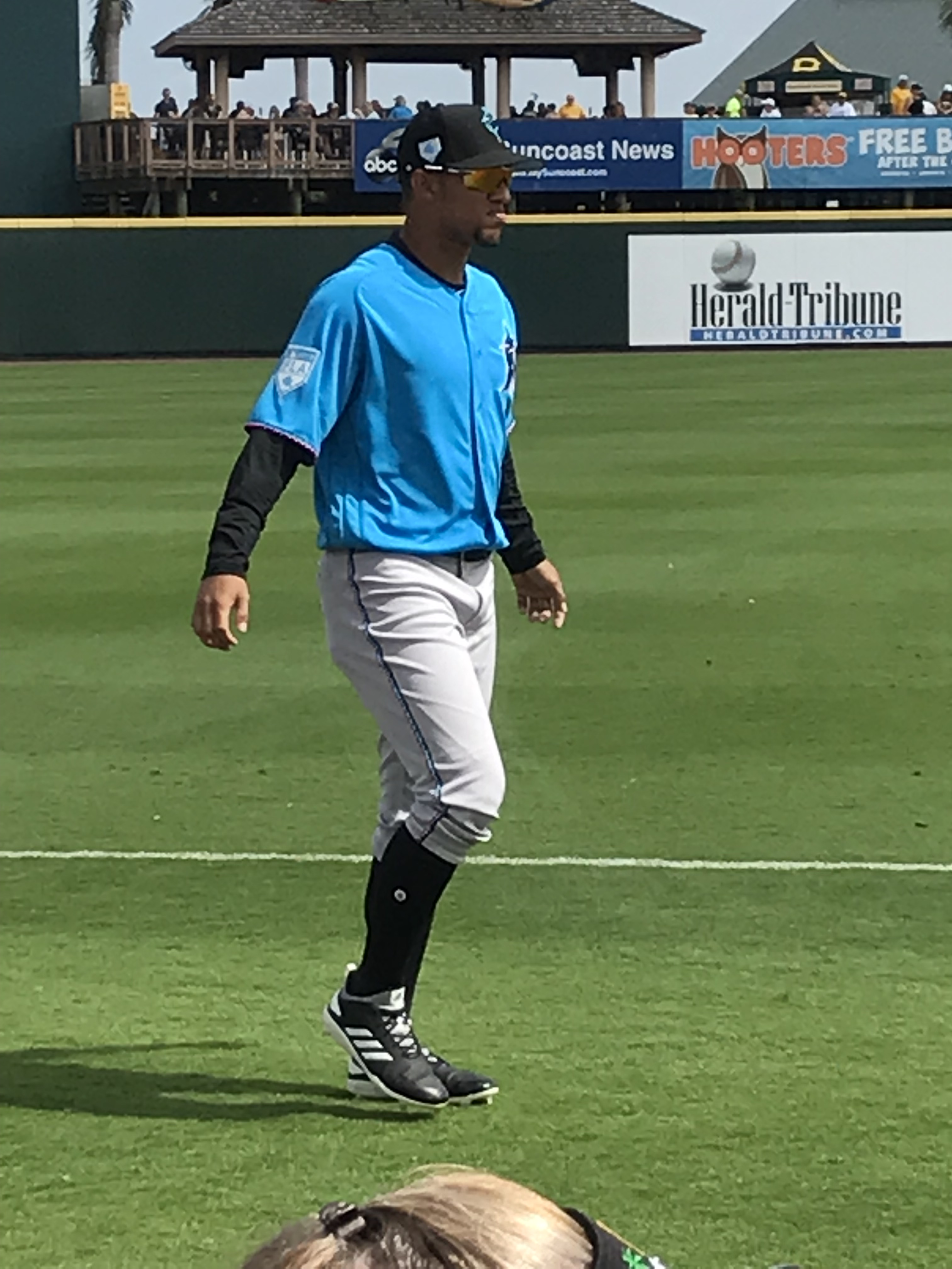 Victor Victor Mesa at spring training 2/24/2019